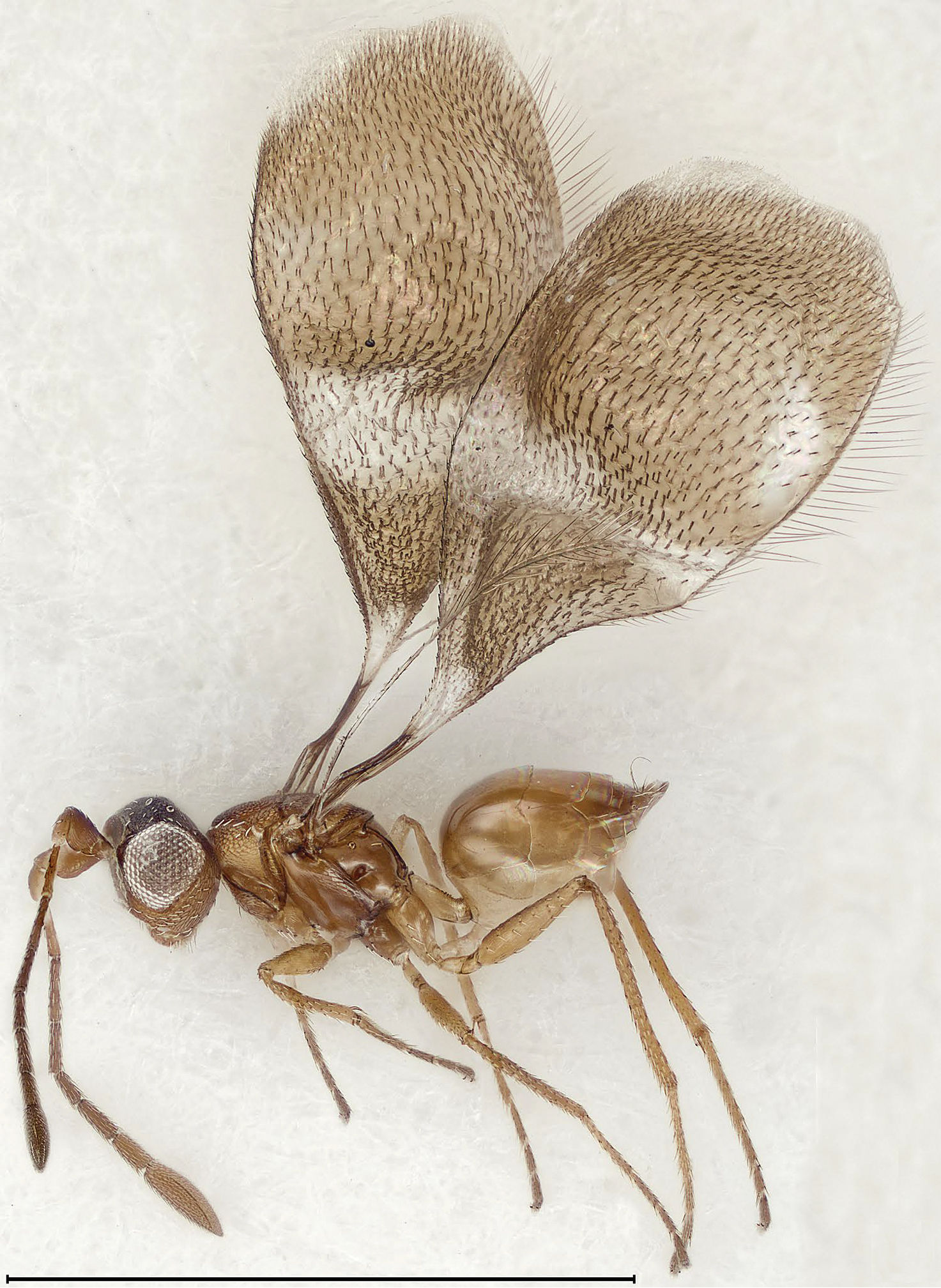 Richteria ara, female, lateral. Scale line = 1000 μm (1 mm).